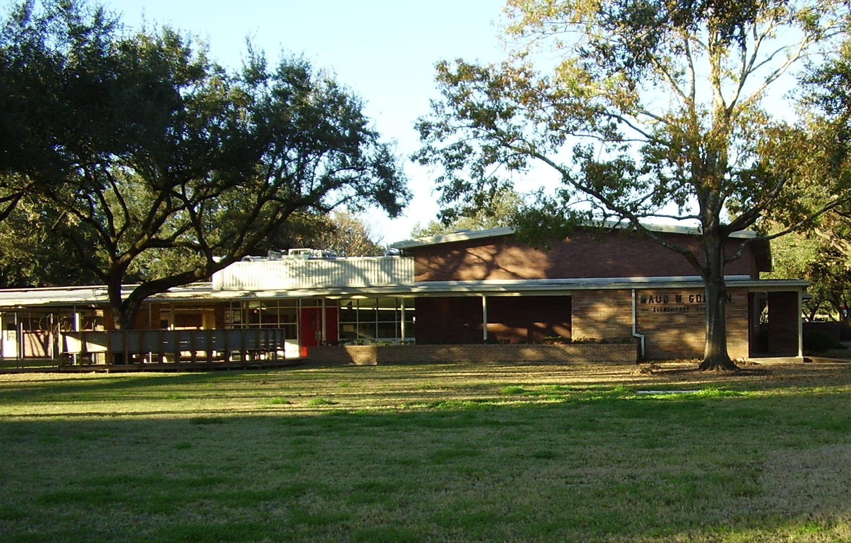 Maud Gordon Elementary School